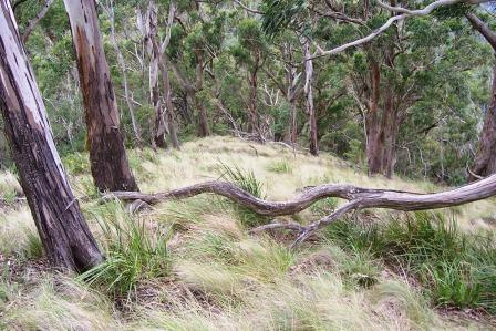 Mount Royal - eucalyptus forest, New England Blackbutt